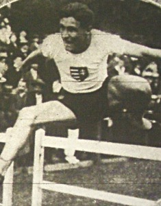 Karoly Stolmar was olympic player than the sport organizator